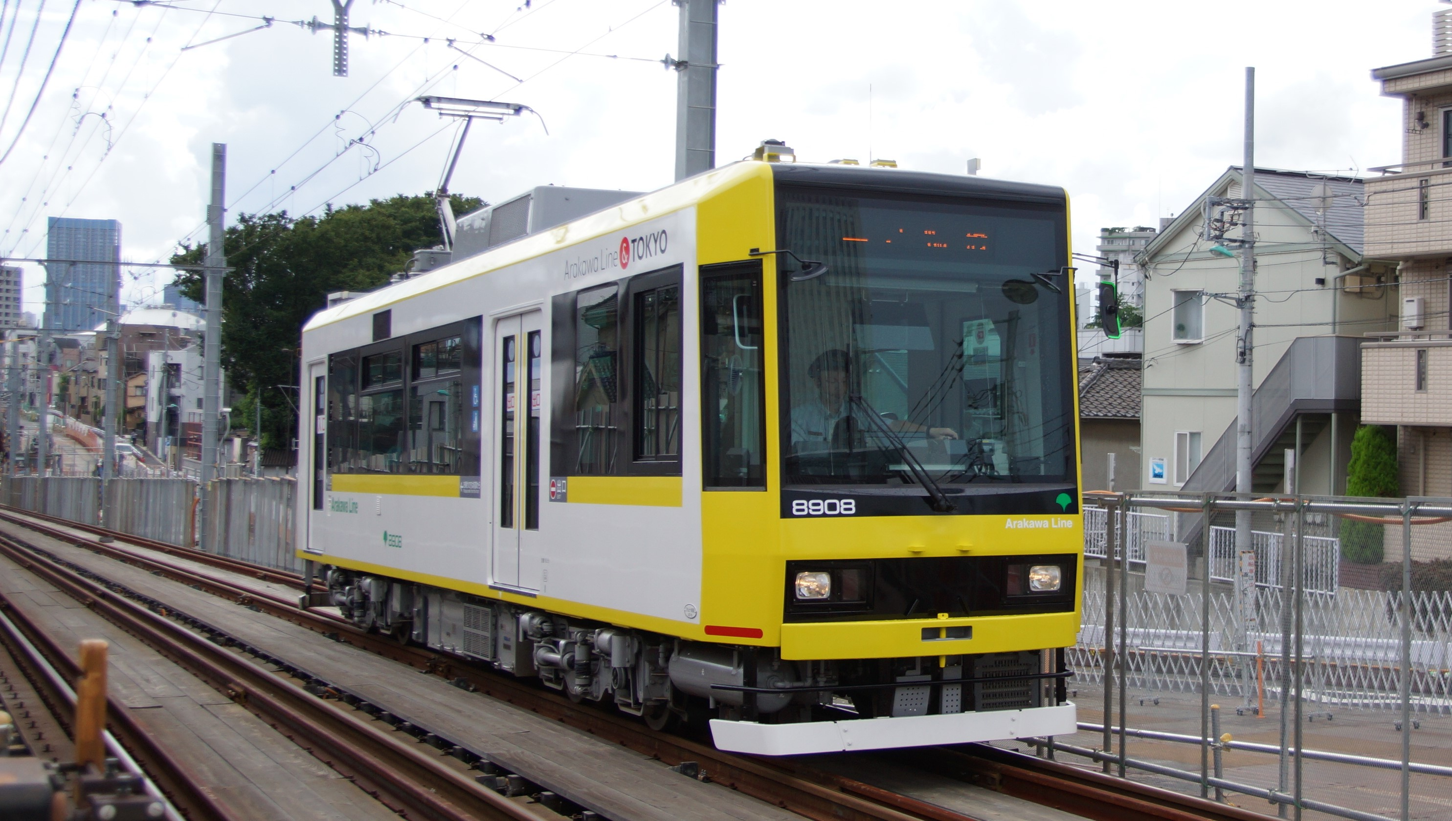 Toei 8900 series tramcar 8908 on the Toden Arakawa Line between Kishibojinmae and Toden-zoshigaya stations in Tokyo on a service to Minowabashi